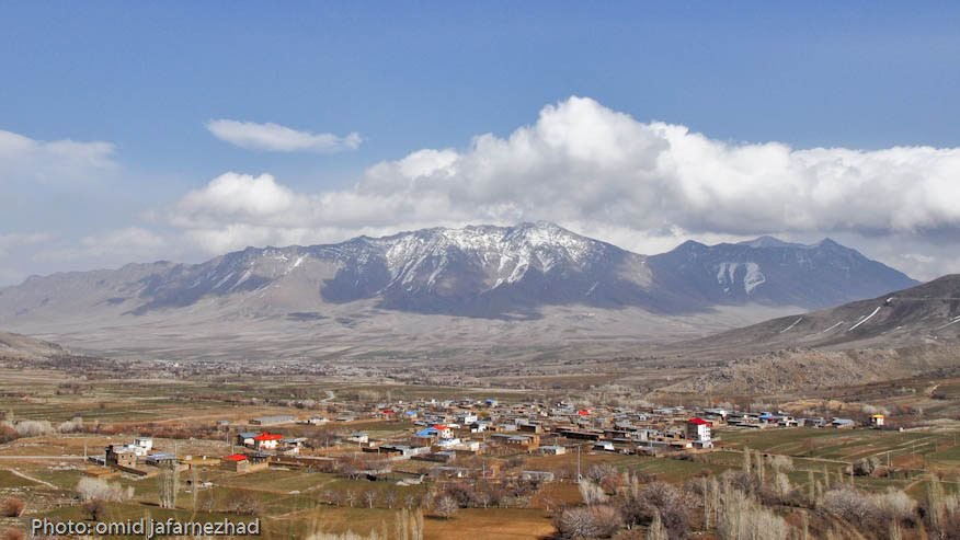 Shahbaz Mountain and Pakal village in Shazand county.